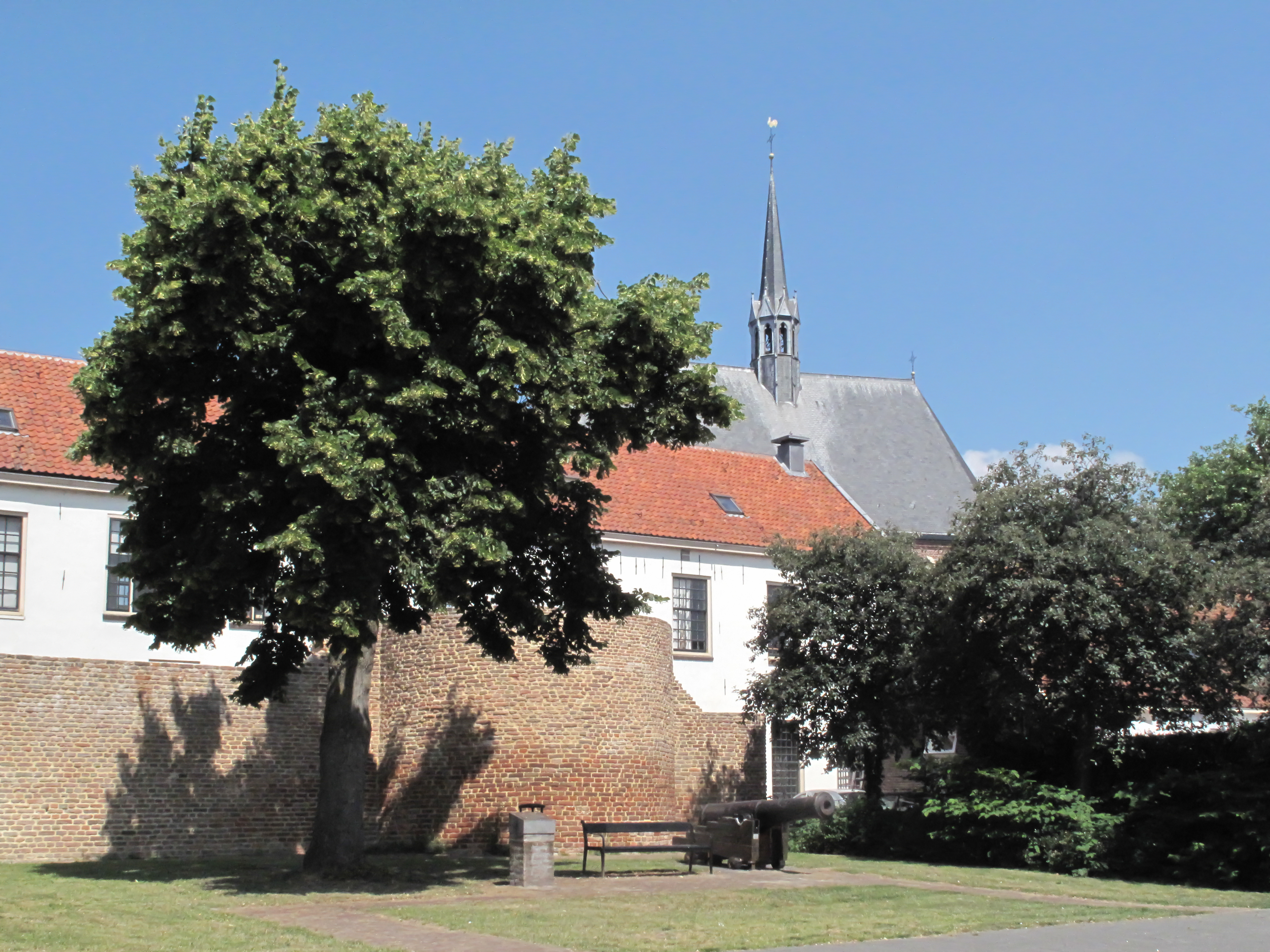 Harderwijk, townwall, canon and church (de Sint Catharinakerk)